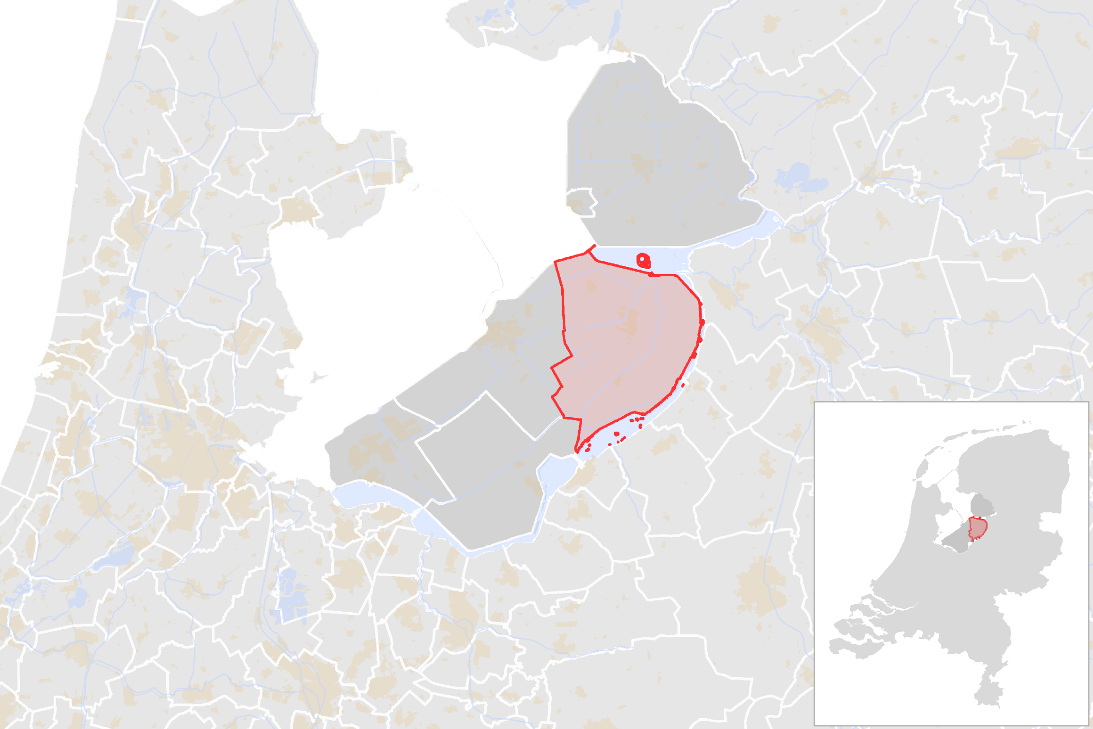 Locator map showing municipality boundary of one of the 390 Dutch municipalities (as of 2016)